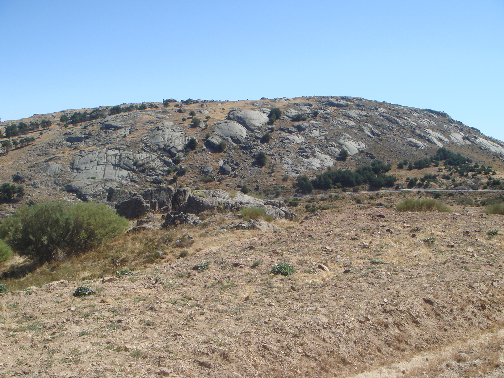 Spain, Alto de las Fuentes granite dome at Sierra de Ávila.